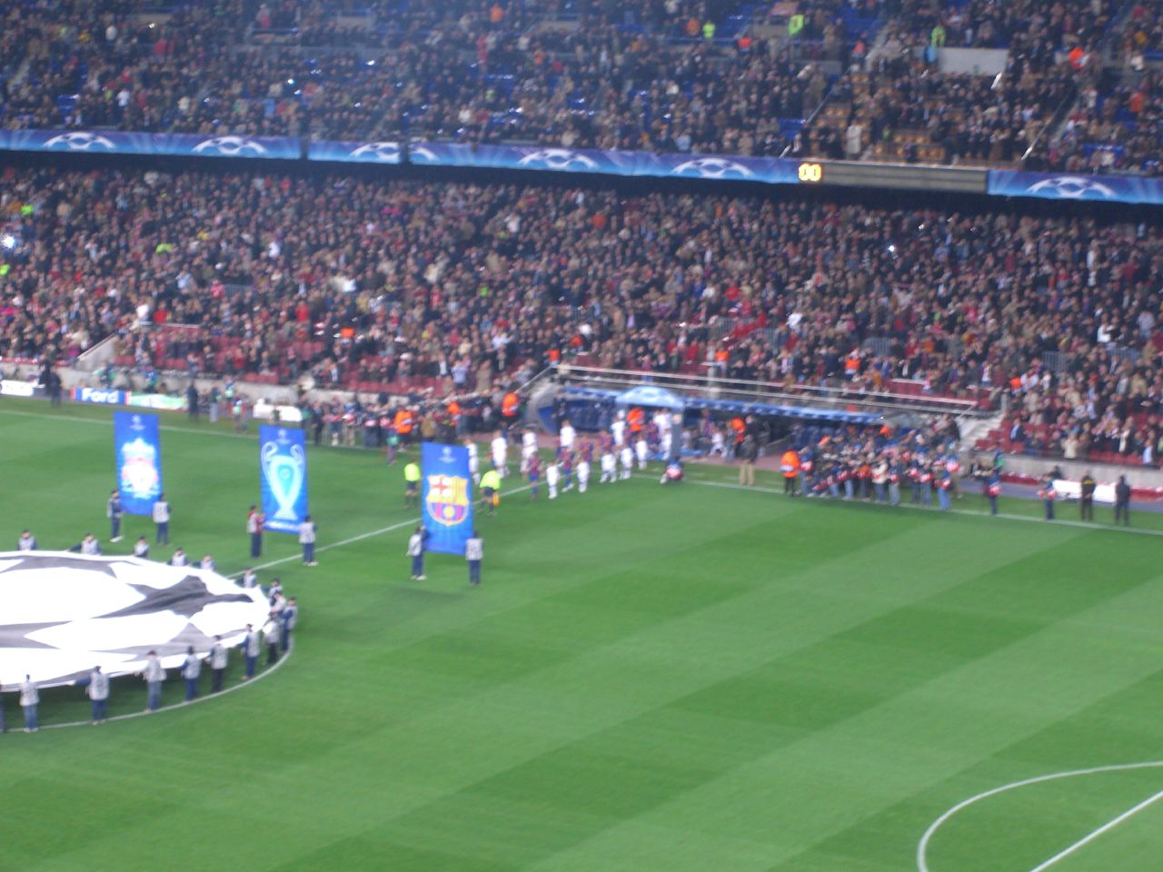 Champions league 2006-07 match. FC Barcelona - Liverpool FC.